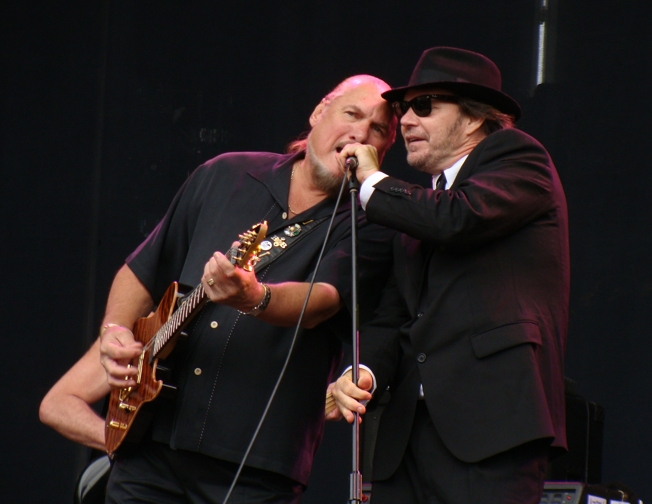 The Blues brothers band